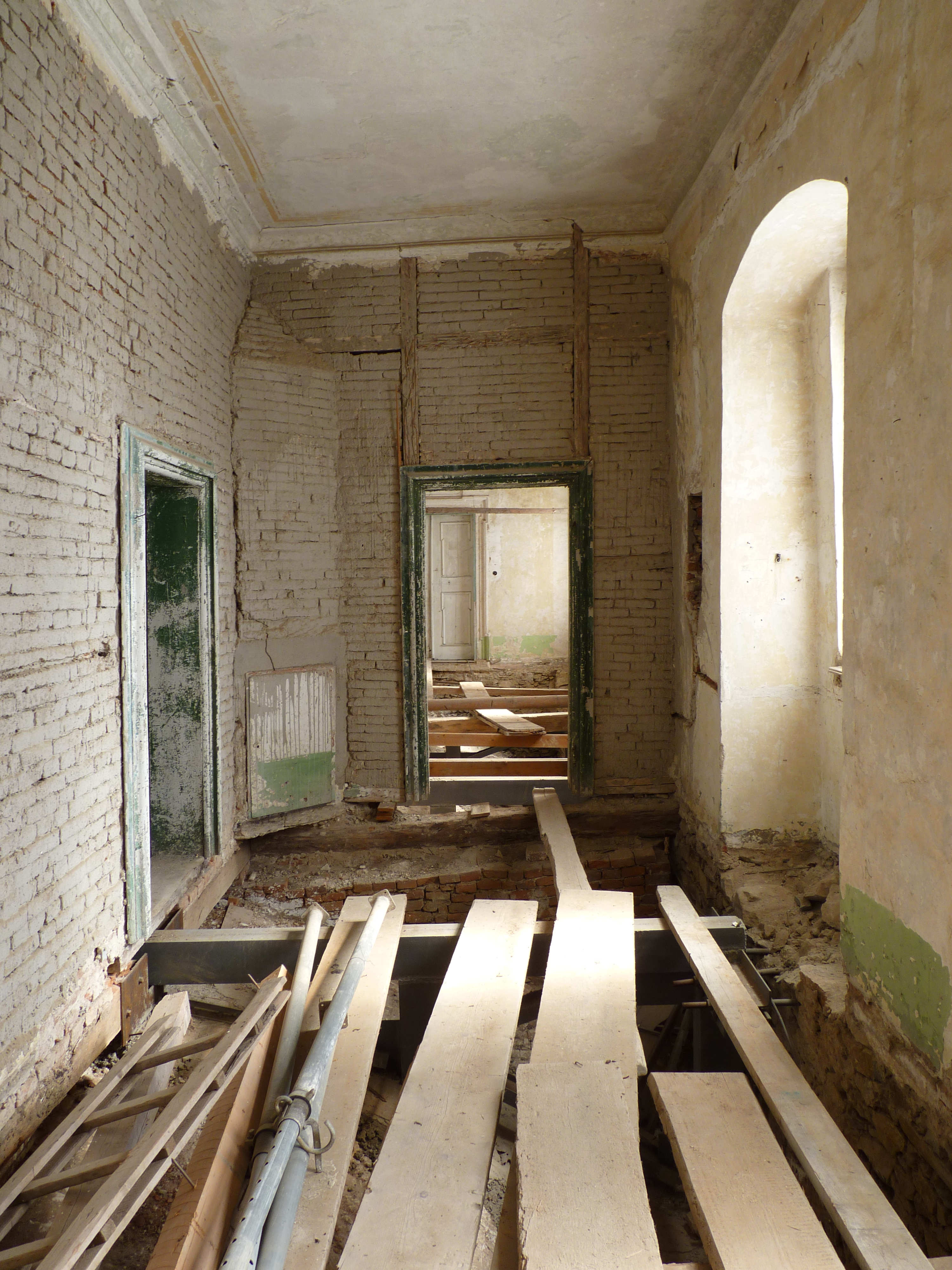 Uherčice Castle, Znojmo District, South Moravian Region, Czech Republic